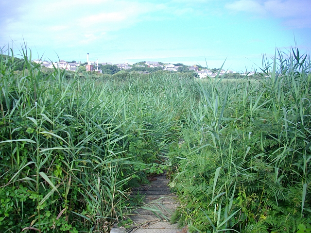 Reed Beds, Lower Moors, St. Mary's On the Lower Moors Nature Trail between Telegraph Road and Old Town. The trail leads through a wetland of Sallow Thicket. Reed bed and wet pasture. The raised path gives views across the largest Reed bed on St Mary's. In the distance is the built up area on the eastern edge of Hugh Town with the landmark chimneys of the incinerator and the power station clearly visible.